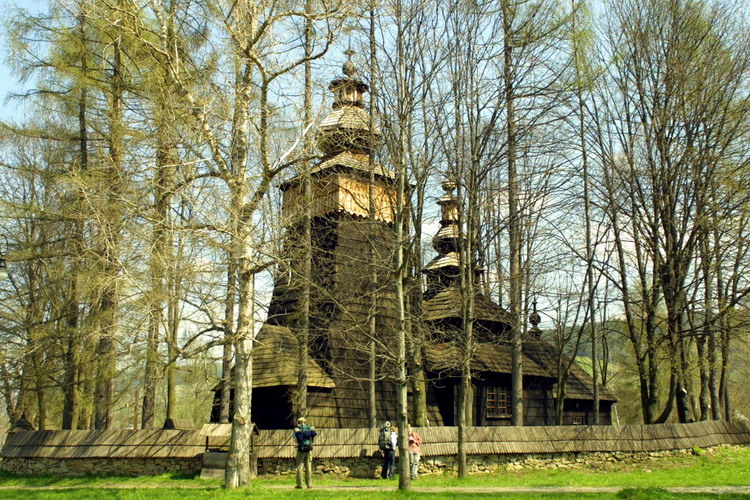 St. James church constructed in 1604 in Powroźnik, Nowy Sącz County, Poland. Greek Catholic church (now Roman Catholic church)